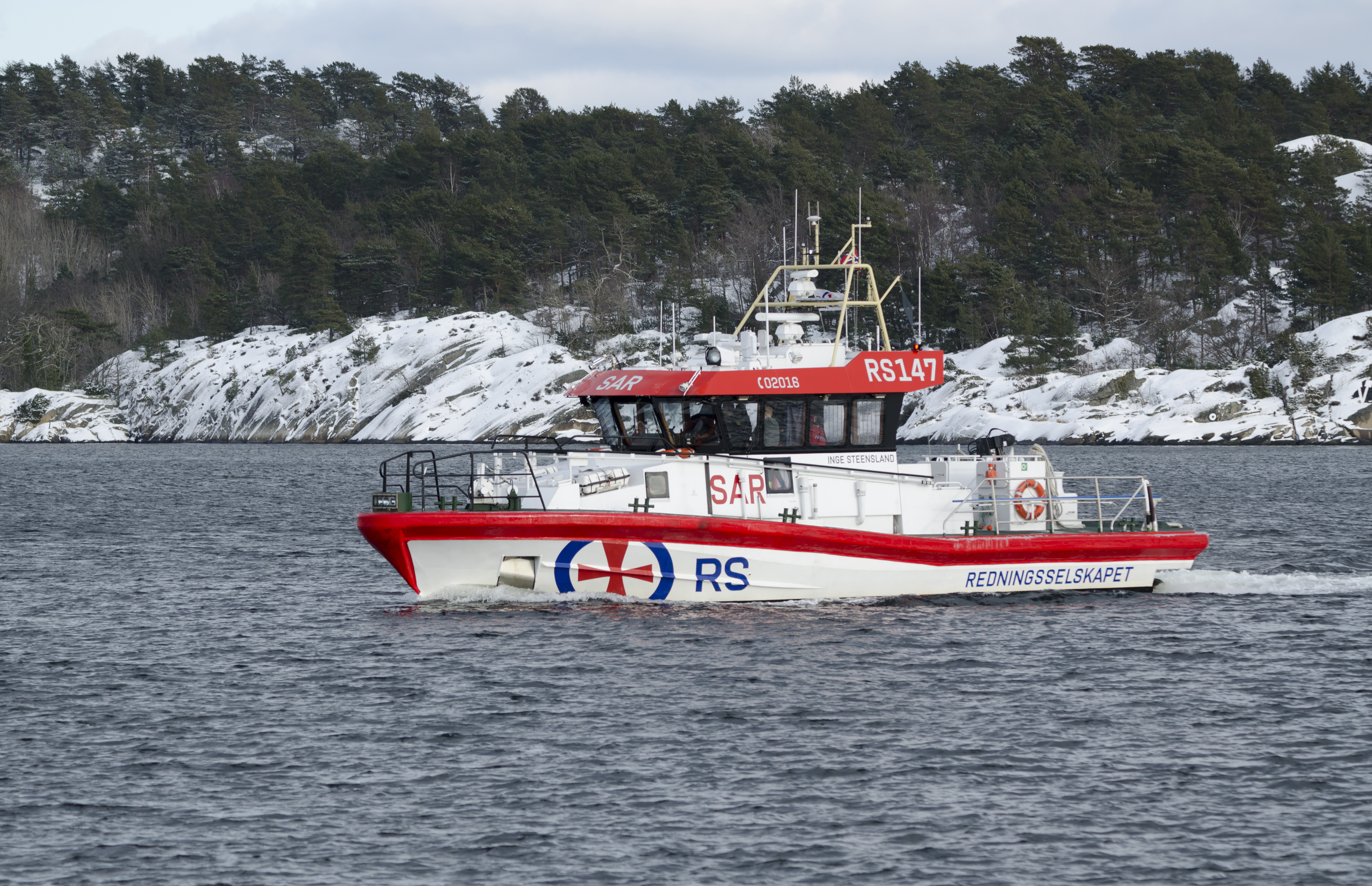 The rescue boat «Inge Steensland» in Risør, februar 2018.